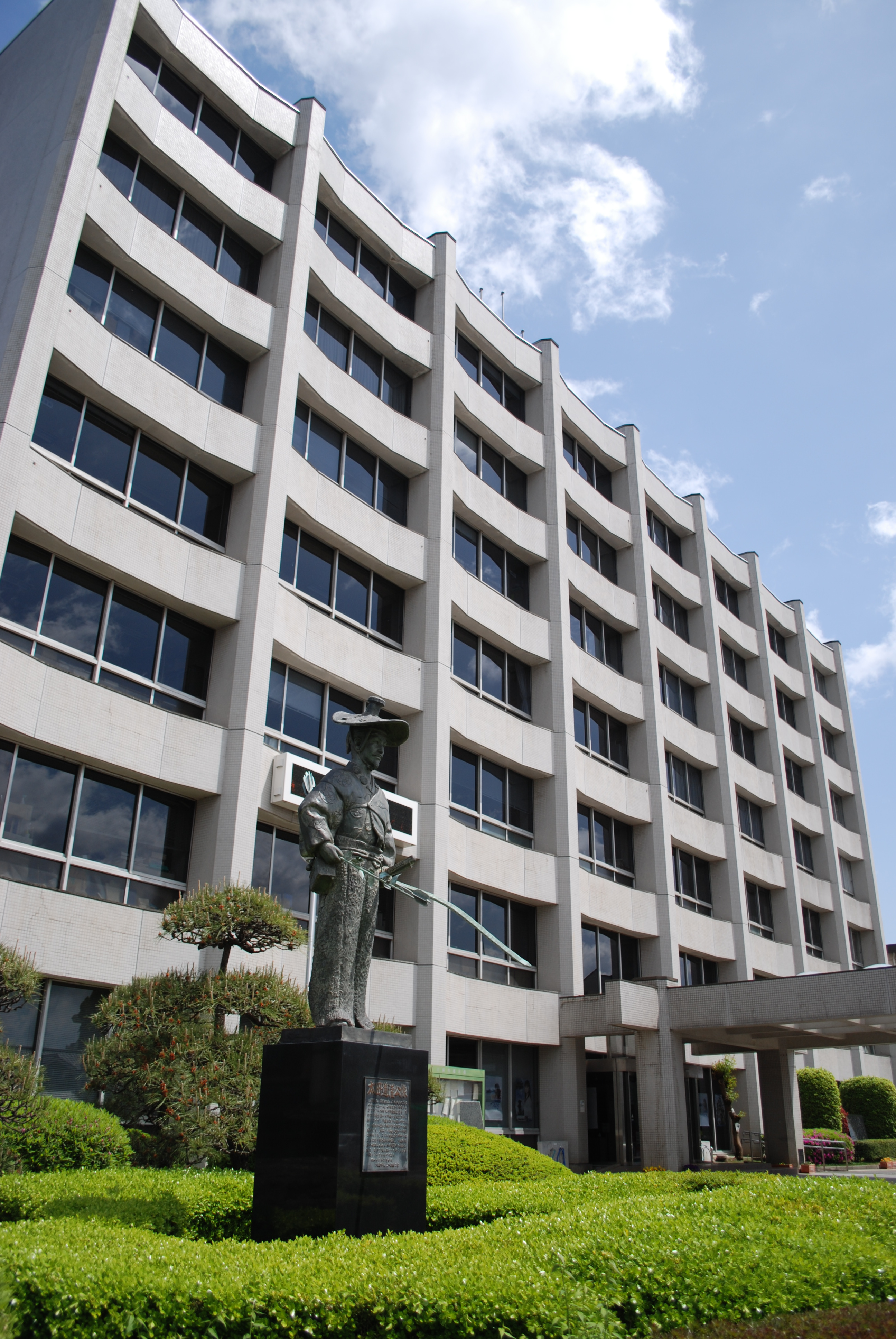 Kawagoe city hall and Ota dokan bronze statue, Kawagoe-city, Japan